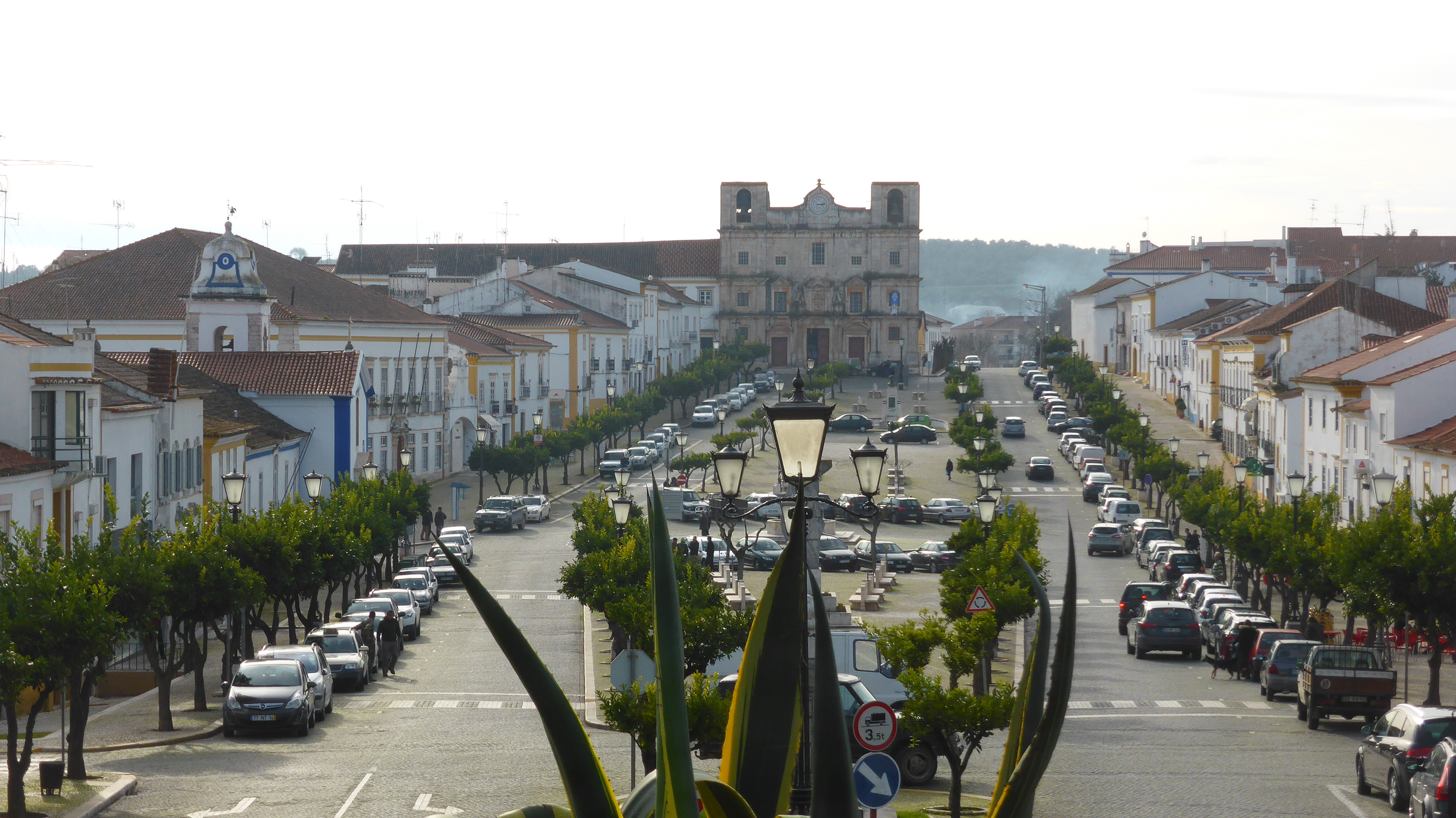 Main Square